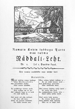 Front page of the newspaper Country People’s Weekly, published in 1807. Eesti Kirjandusmuuseum